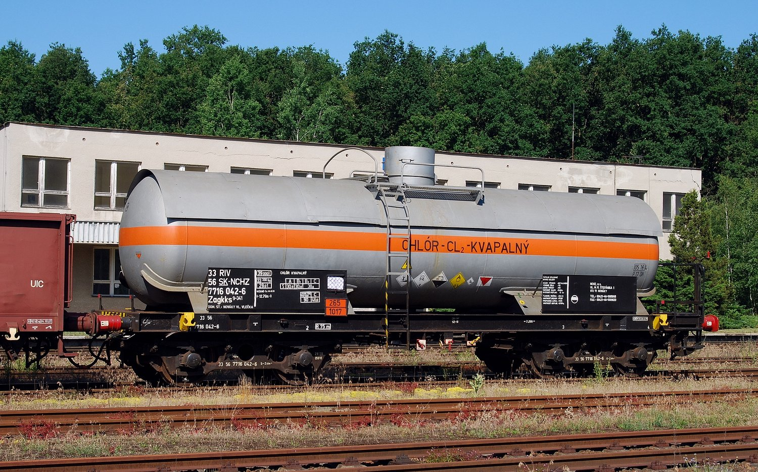 Zagkks 33 56 771 6 042-6 (built by Waggonworks in Studenka, Czechoslovakia in 1981), owned by Novacke chemicke zavody in Novaky (Slovakia), used for the transport of liquid chlorine. Spotted in station Brniste (Czech rep.) (2012).